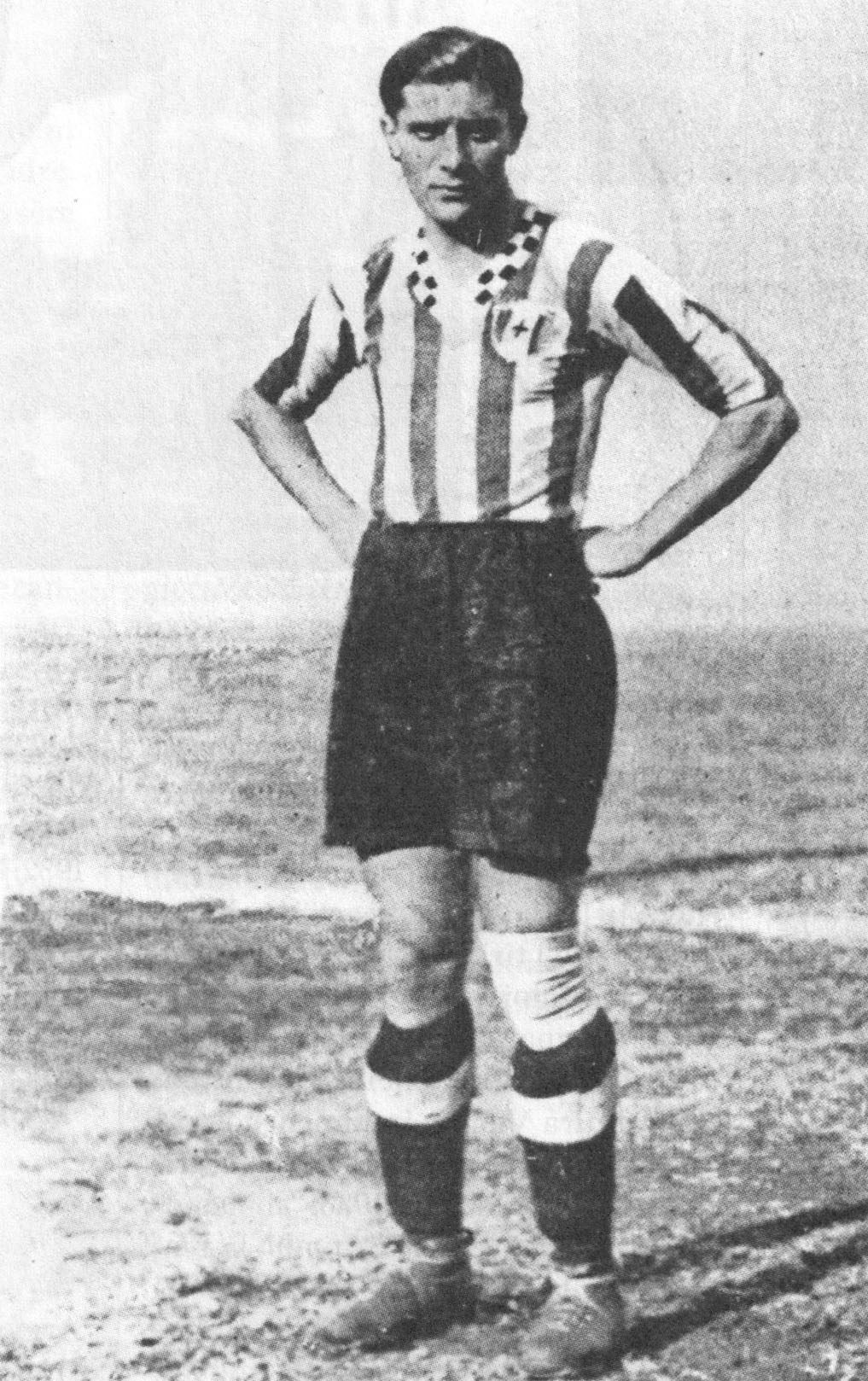 Italian footballer Giuseppe "Peppino" Meazza with A.S. Ambrosiana in the 1930–31 season.